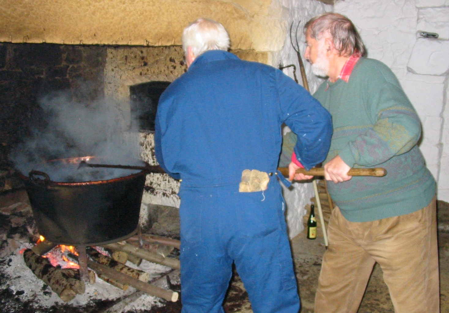 Nièr beurre, National Trust for Jersey, 2007